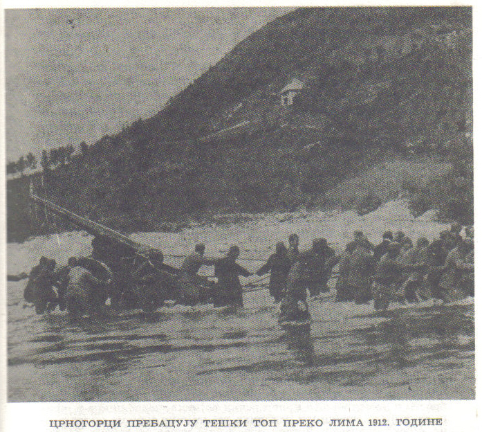 Montenegrins transporting a heavy cannon over Lim in 1912